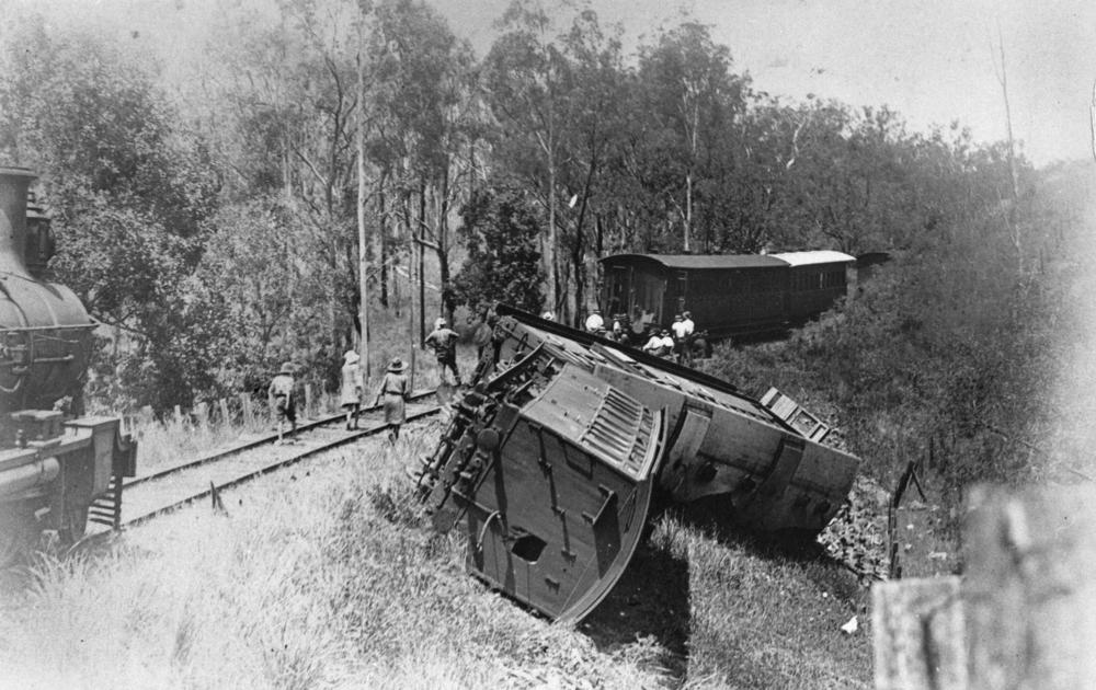 Railway carriages derailed at Gillen Siding on the Mount Perry branch line, 1924 Two railway carriages have fallen off the railway track. Workers are busy attempting to put another carriage back onto the railway track. Three people are walking along the track towards the workers. Part of a locomotive is visible in the foreground.